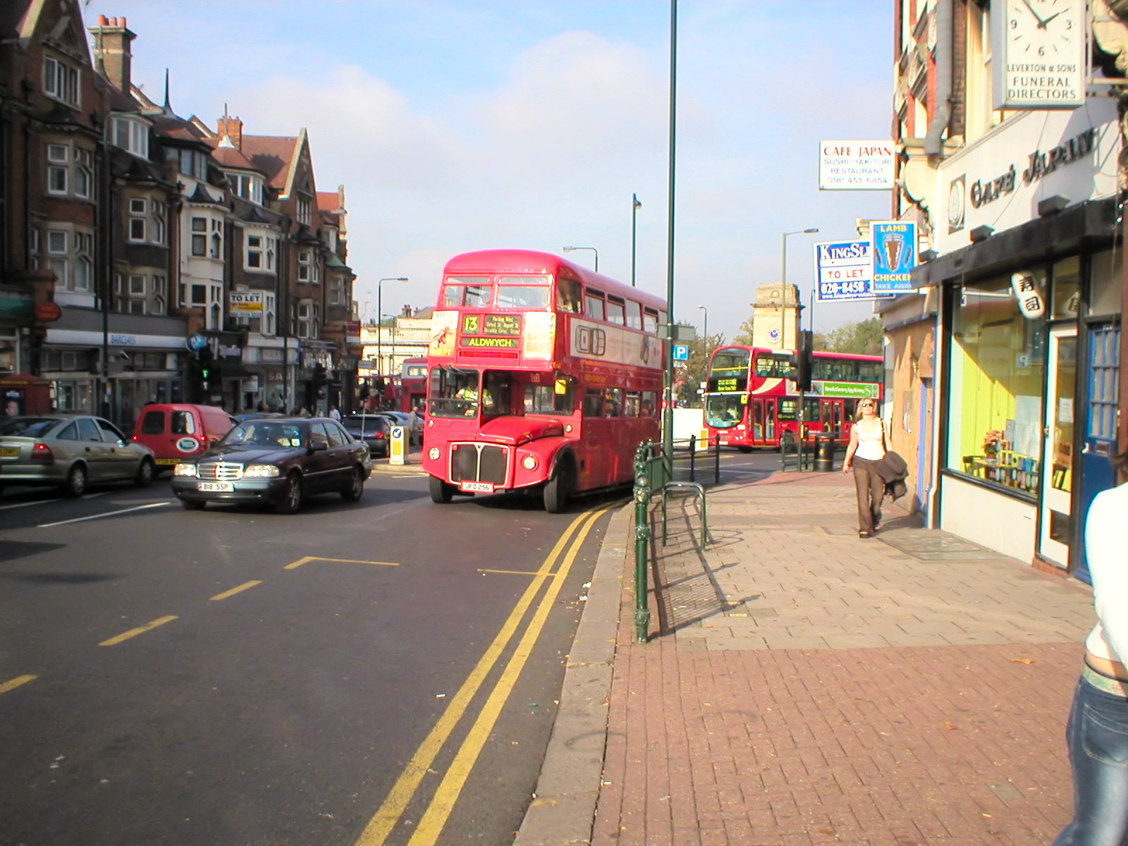 Sovereign Bus & Coach Routemaster bus RM23 (reg. JFO 256), pictured in Golders Green, London, operating route 13 en route to Aldwych, with an Arriva London bus on route 112 following behind. By this time, the 13 was one of only 3 Routemaster operated routes left in London, and it was converted to modern buses four days later, on 21 October 2005.